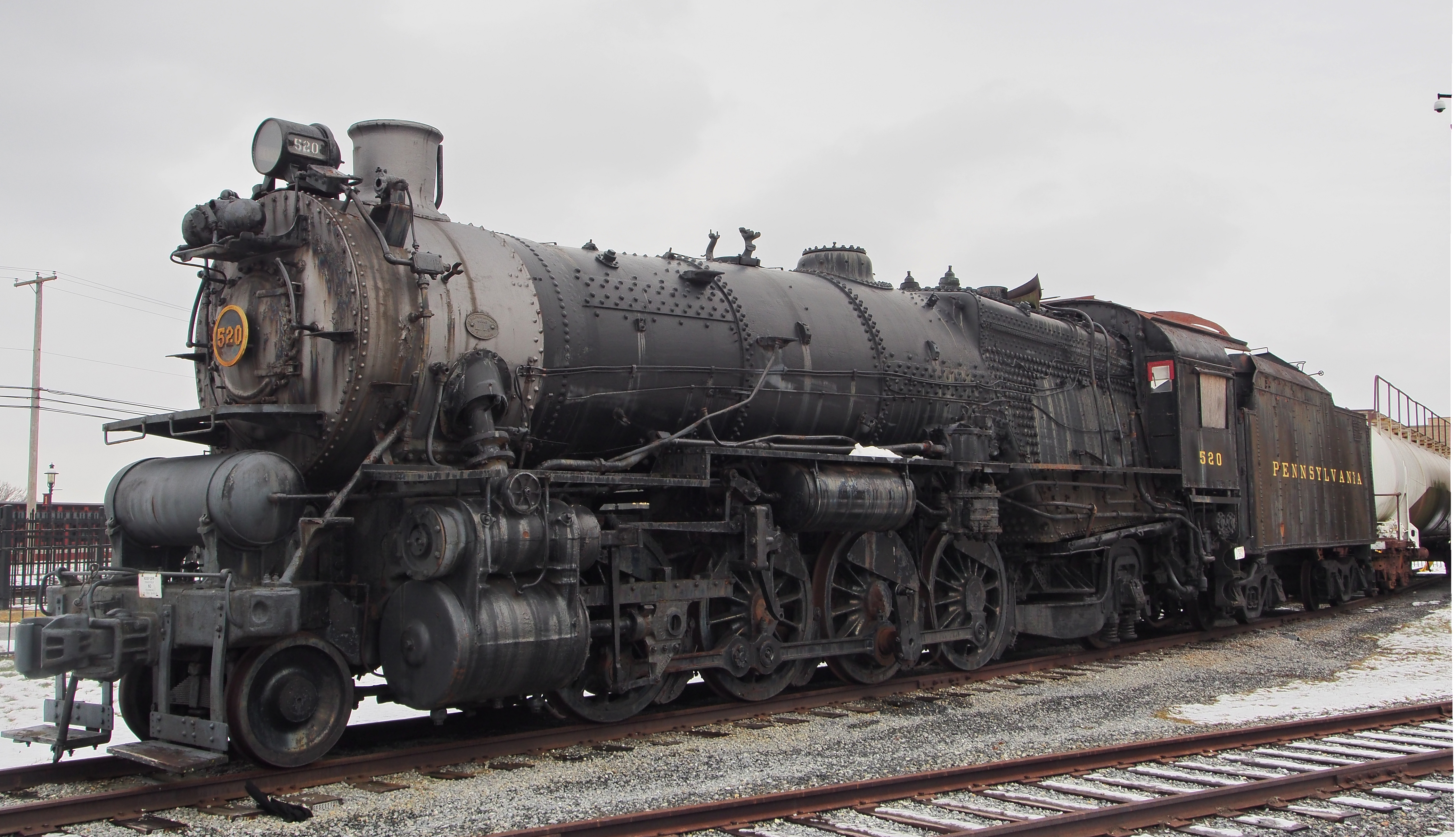 Pennsylvania Railroad locomotive No. 520 from the Railroad Museum of Pennsylvania. It is listed on the roster as RR79.40.5A.